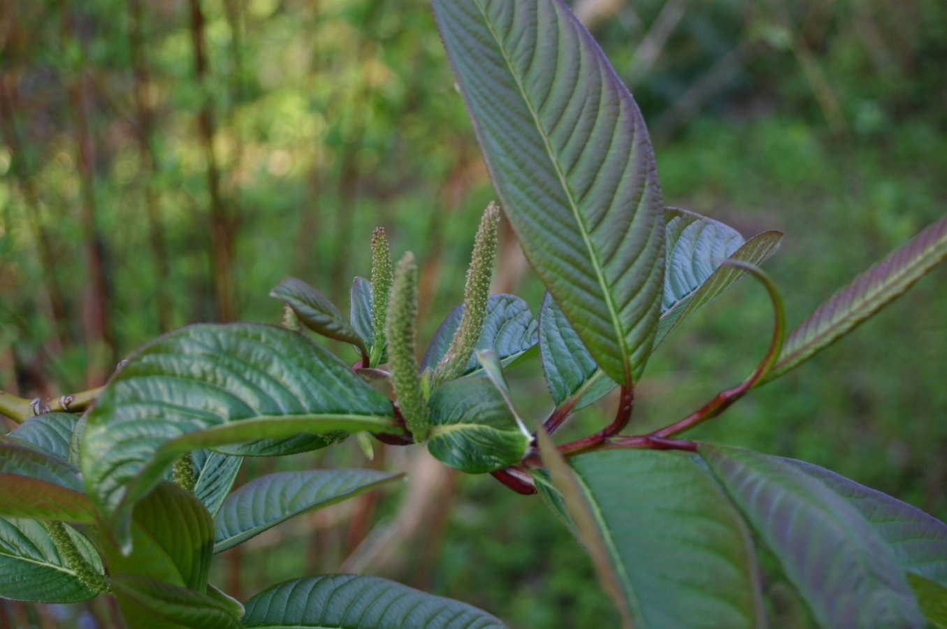 Salix moupinensis: Young foliage.